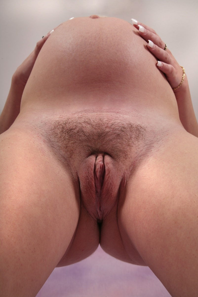 Photograph of the vulva and abdomen of a pregnant model of 18+ years of age taken with her consent by Edd Ahrens and sourced from